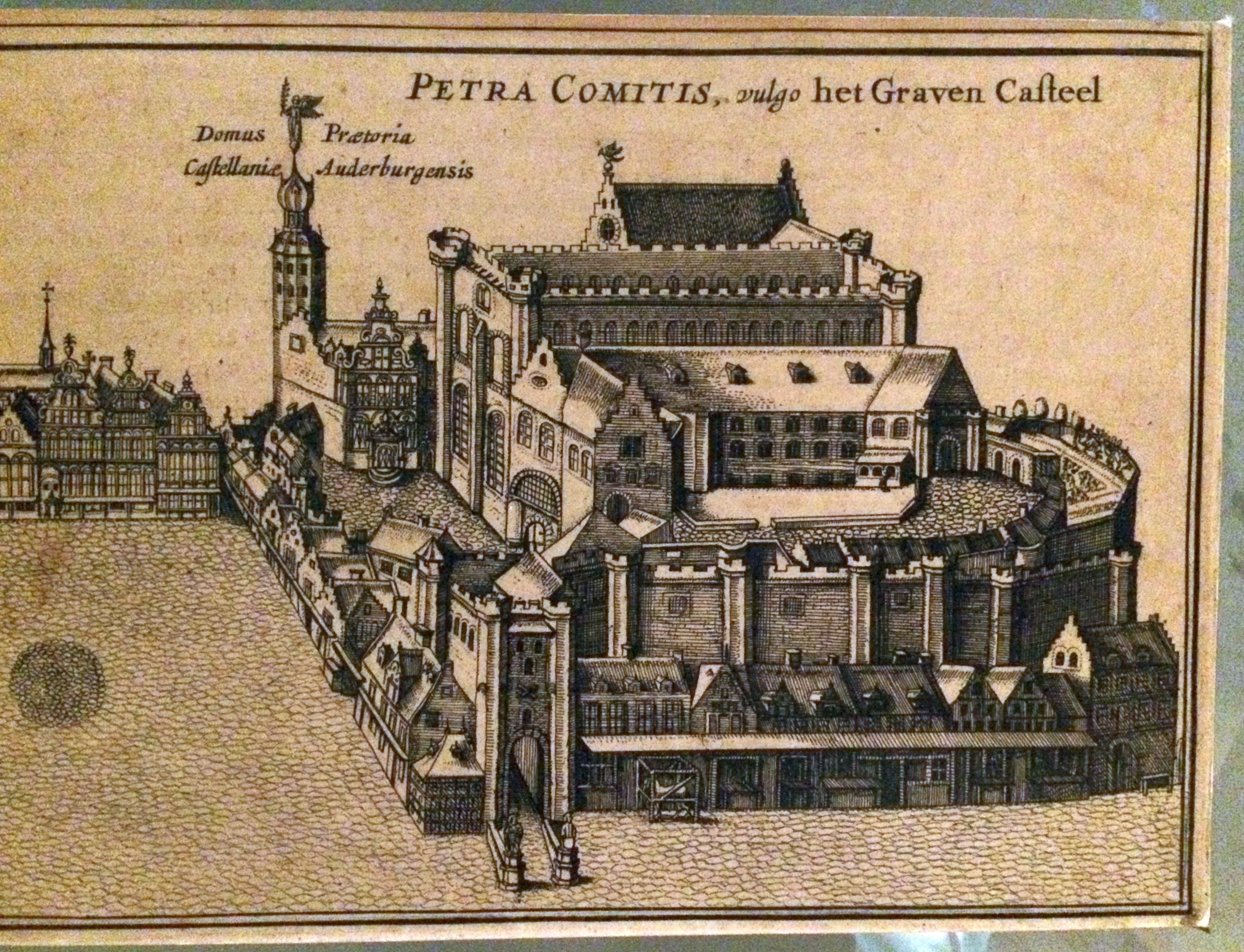 Old engraving that shows the counts' castle in Ghent, Belgium.